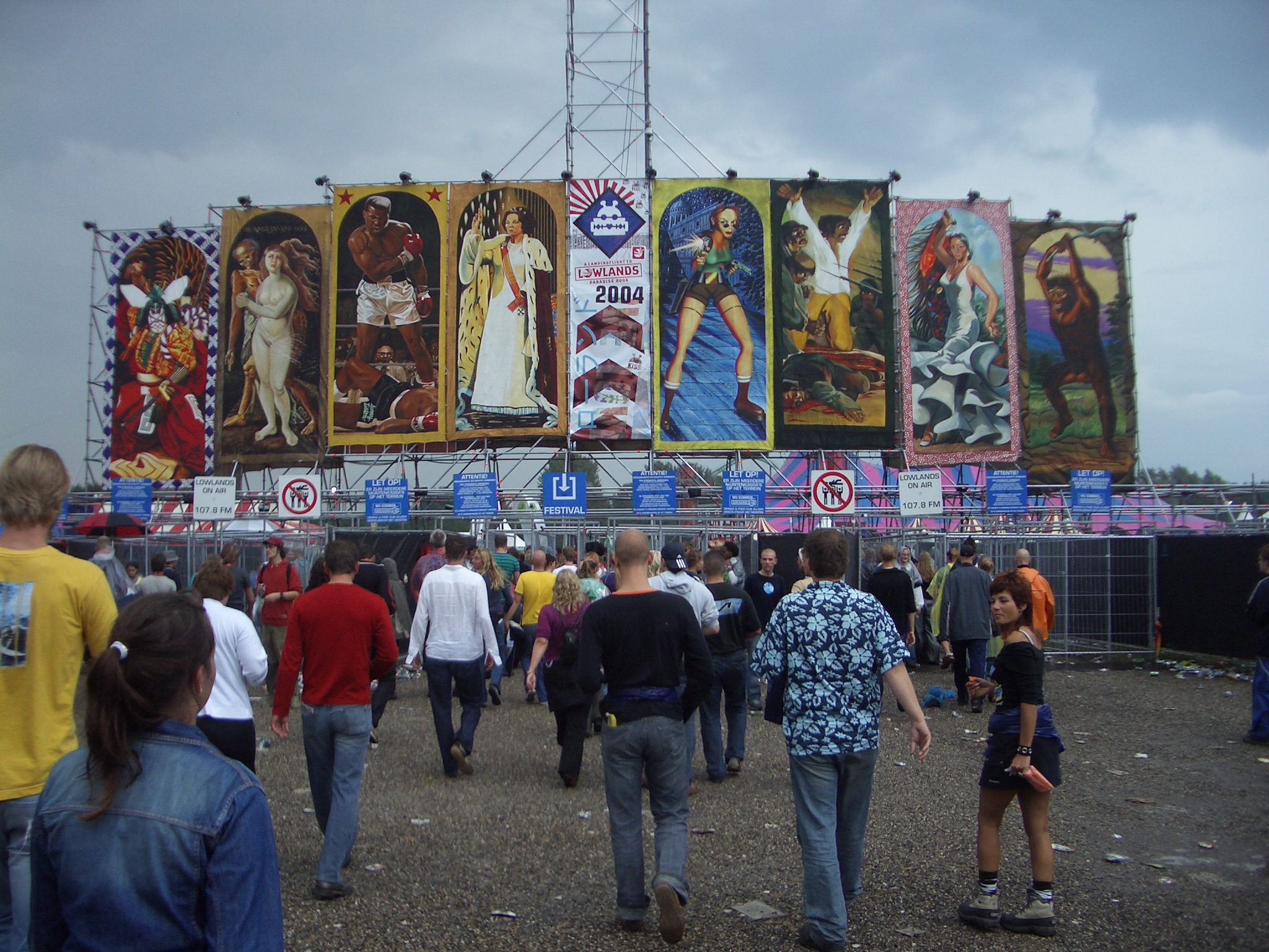 Entrance of the Lowlands festival, the Netherlands.